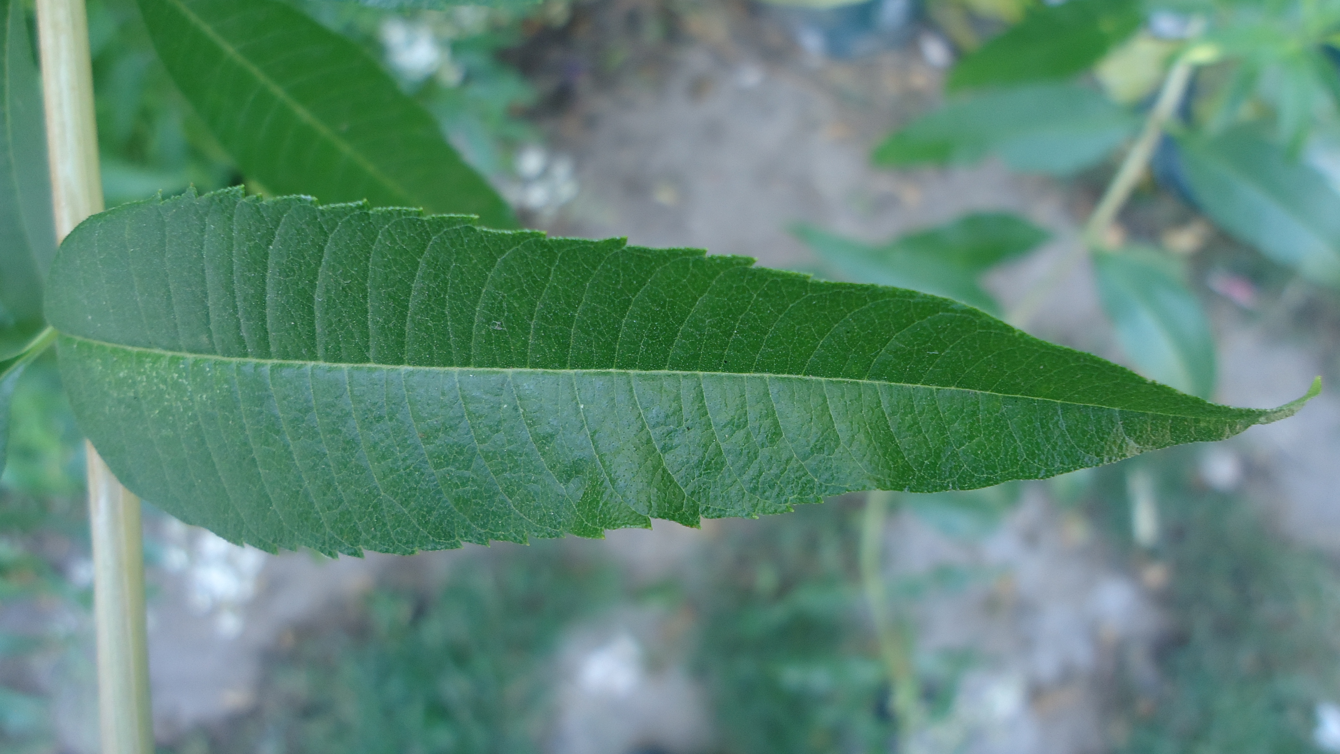 A leaf of Aloysia citrodora. Photography token in Buenos Aires Province, Argentina